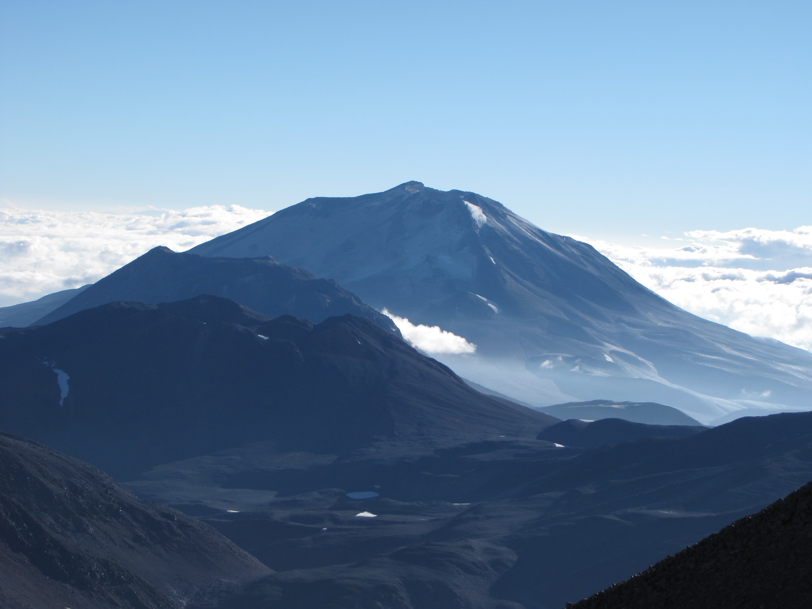 Ojos del Salado summit bid - main glacier height